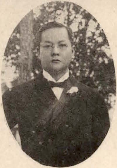 黃東茂 (N̂g Tong-bō͘)